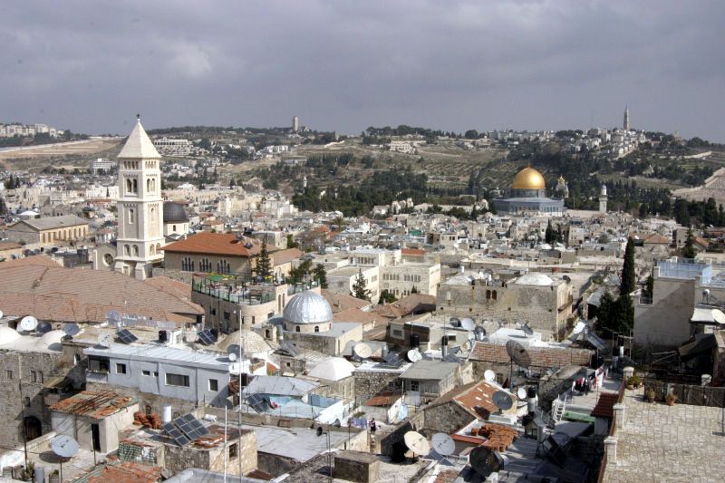 The Old City in Jerusalem with Mount Scopus and the Mount of Olives.